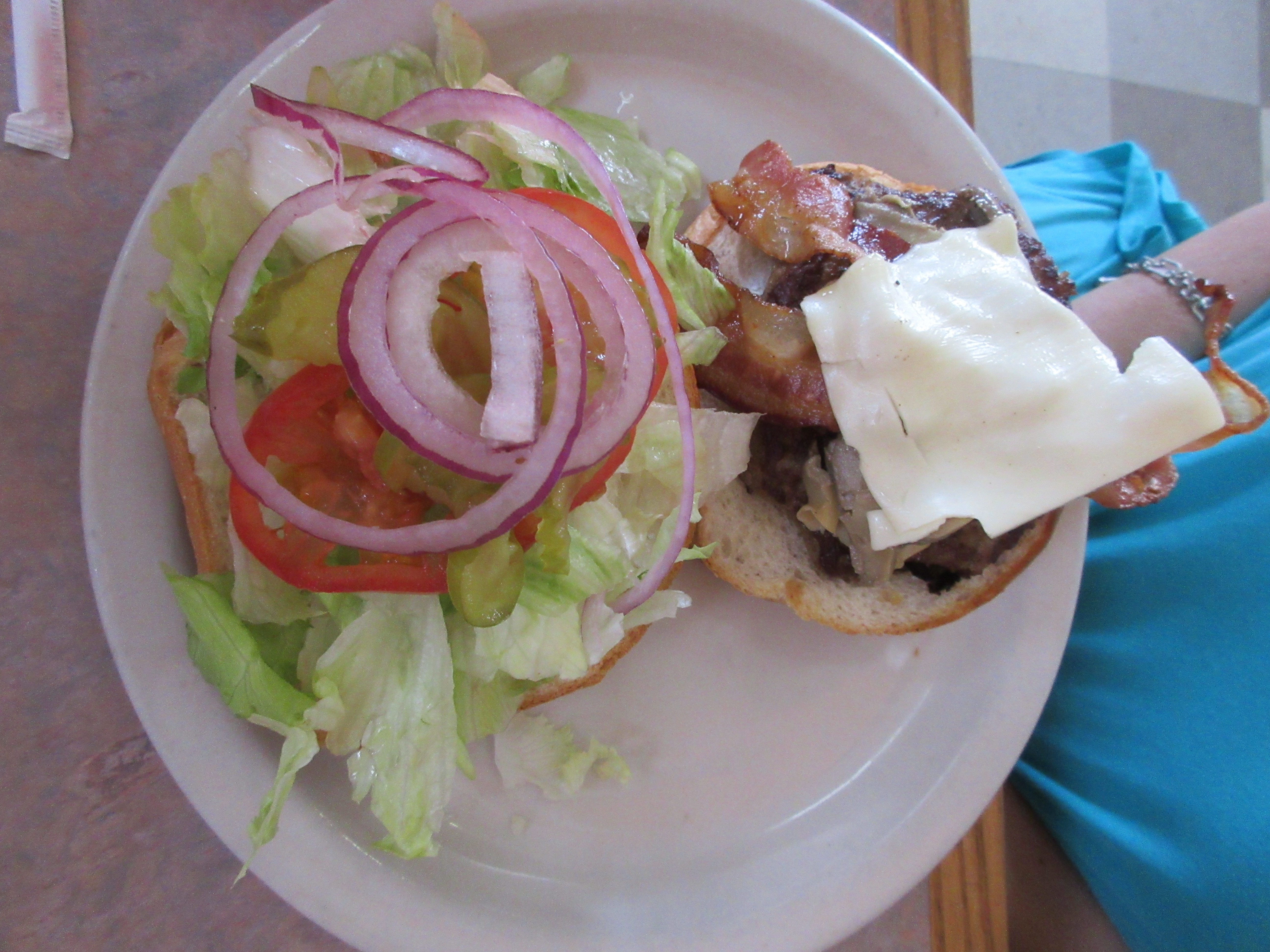 Dot's Diner, Jefferson Highway & Labarre, Jefferson, Louisiana